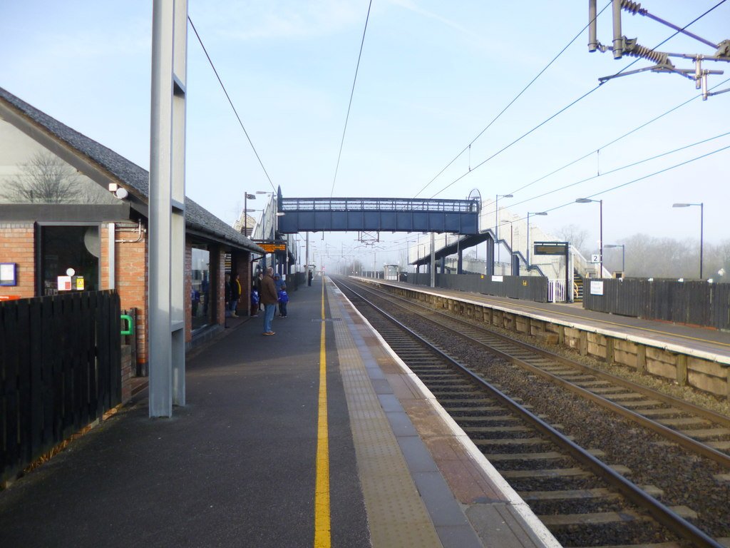 Tile Hill station: Looking towards Birmingham. The station is served by trains from Network West Midlands.